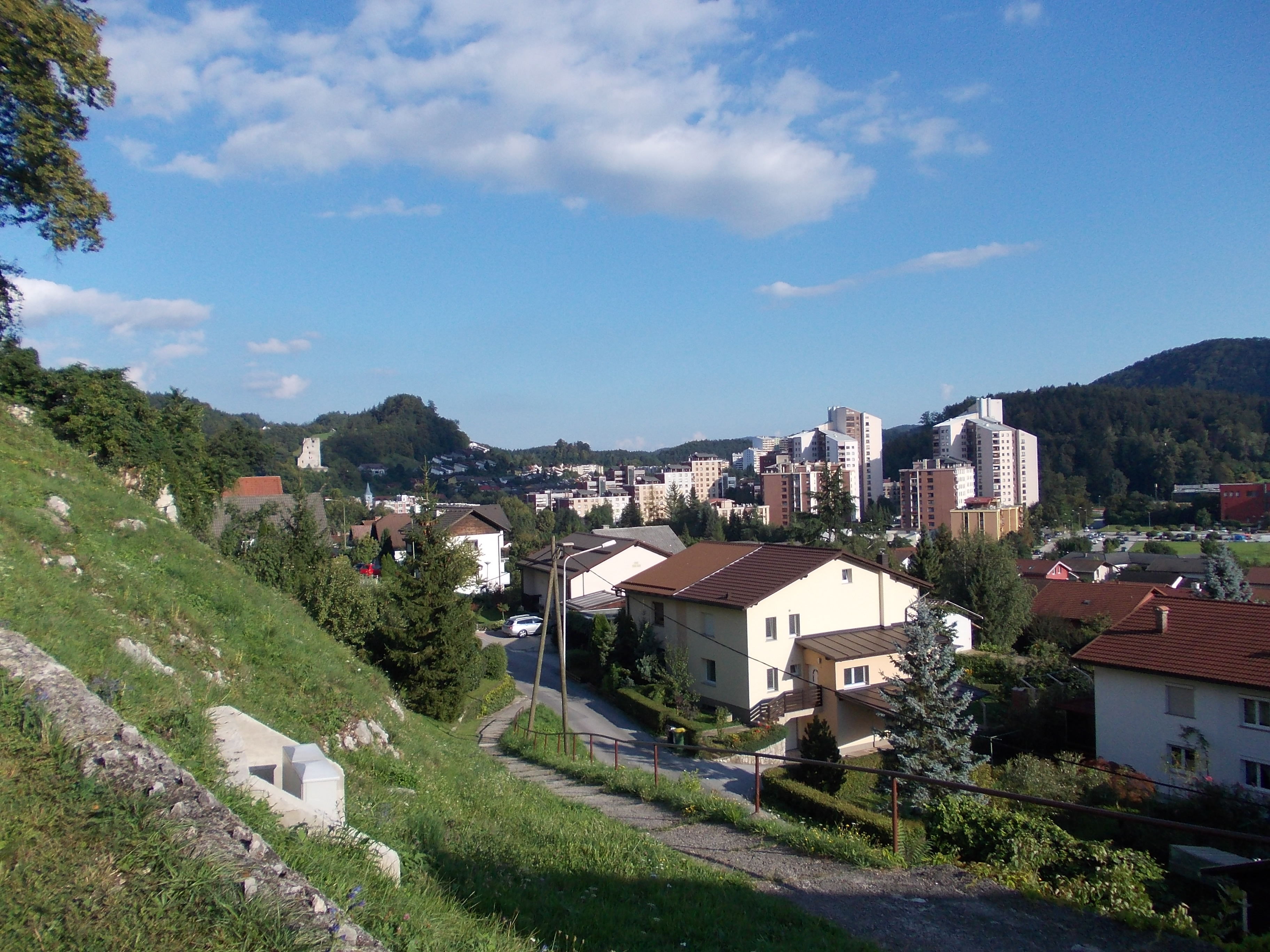 St. Martin's Parish Church (Velenje)